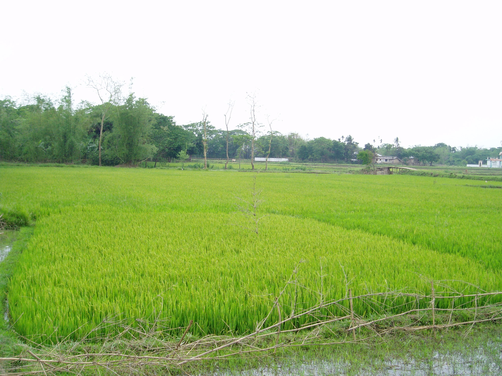 Rice fields in Sylhet during April